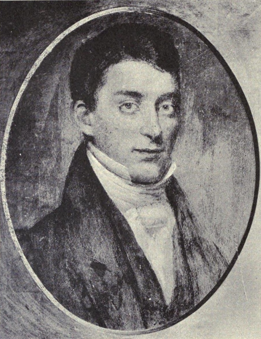 Sheldon Dibble (1809–1845) was a missionary to Hawaii who organized one of the first books on Hawaiian history, and inspired students to write more as a class project. Students David Malo and Sam Kamakau became notable historians as well.